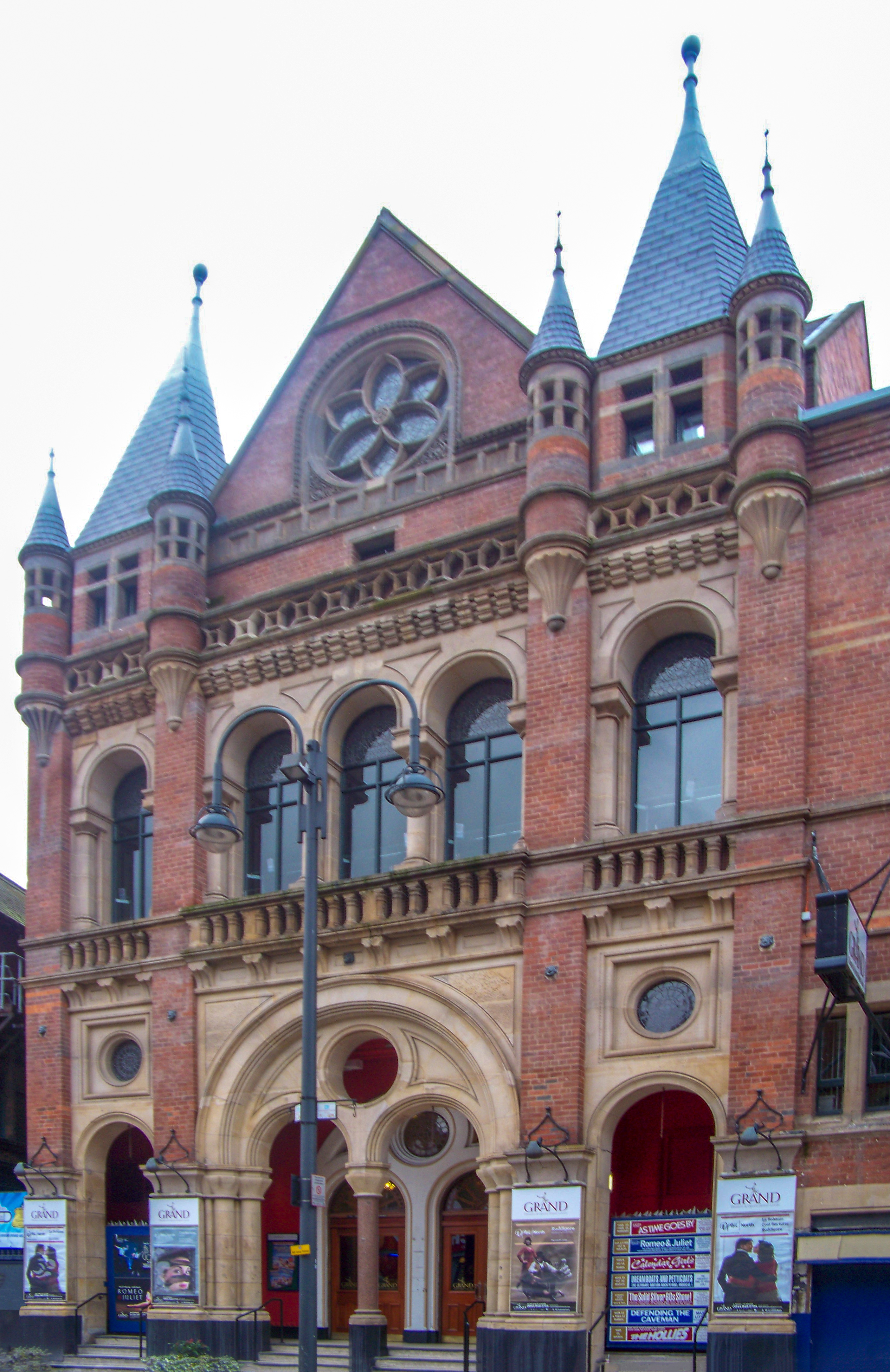 The Grand Theatre, New Briggate, Leeds. Taken on the afternoon of Saturday the 25th of January 2010.